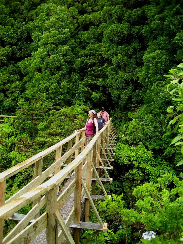 Part of th Levada walking trail